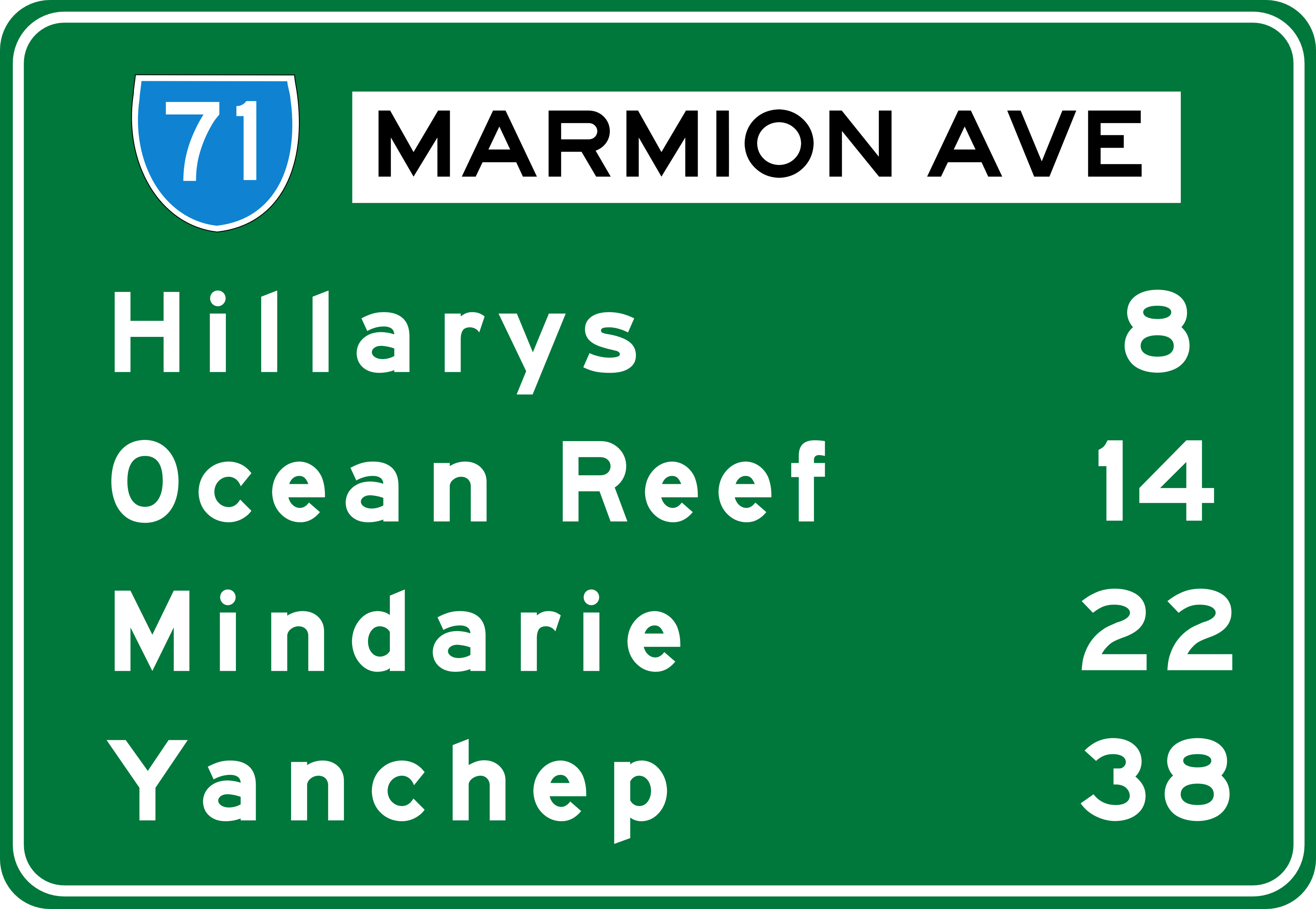 Highway sign for Marmion Avenue, Western Australia.